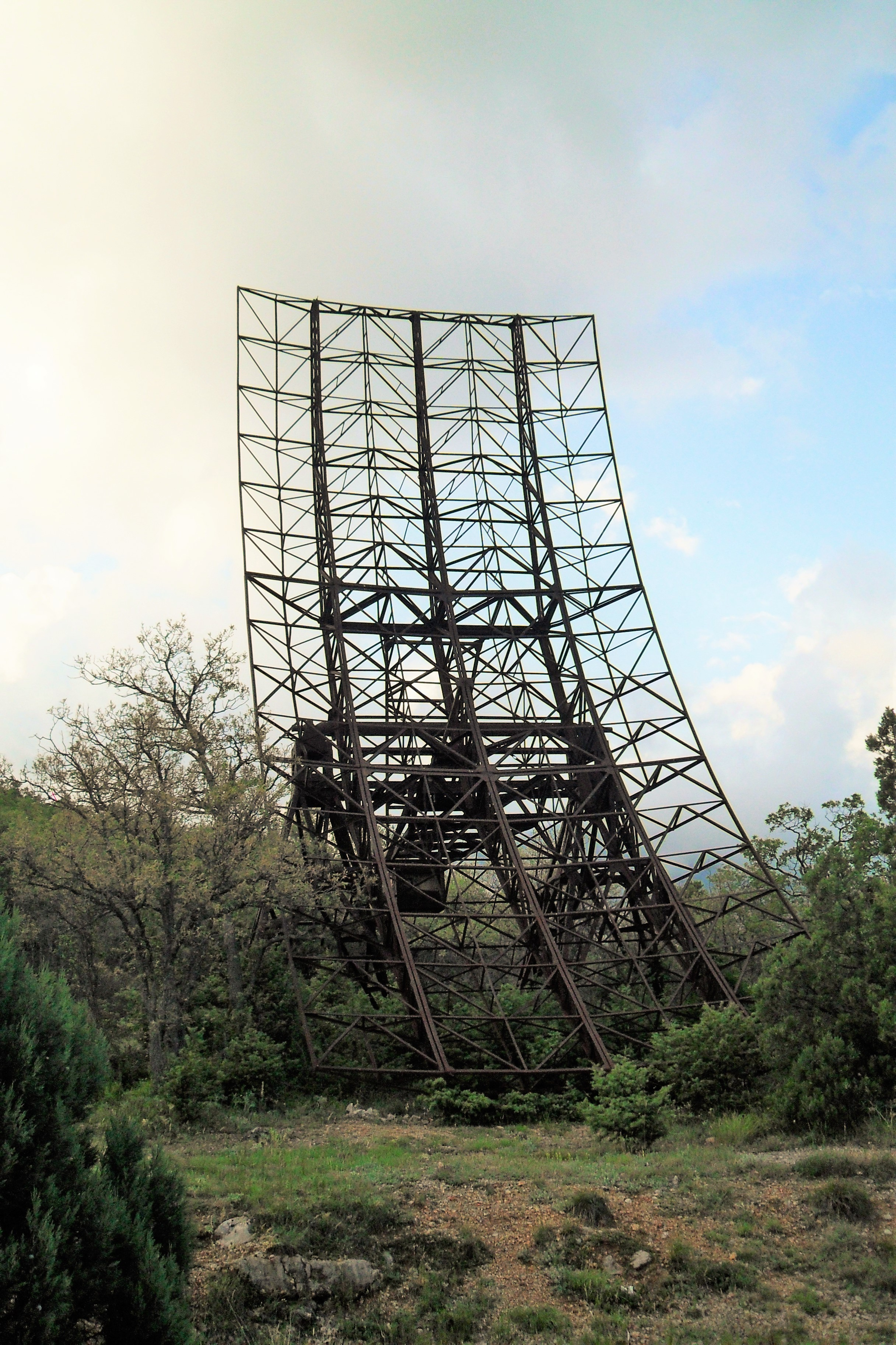 Antenna